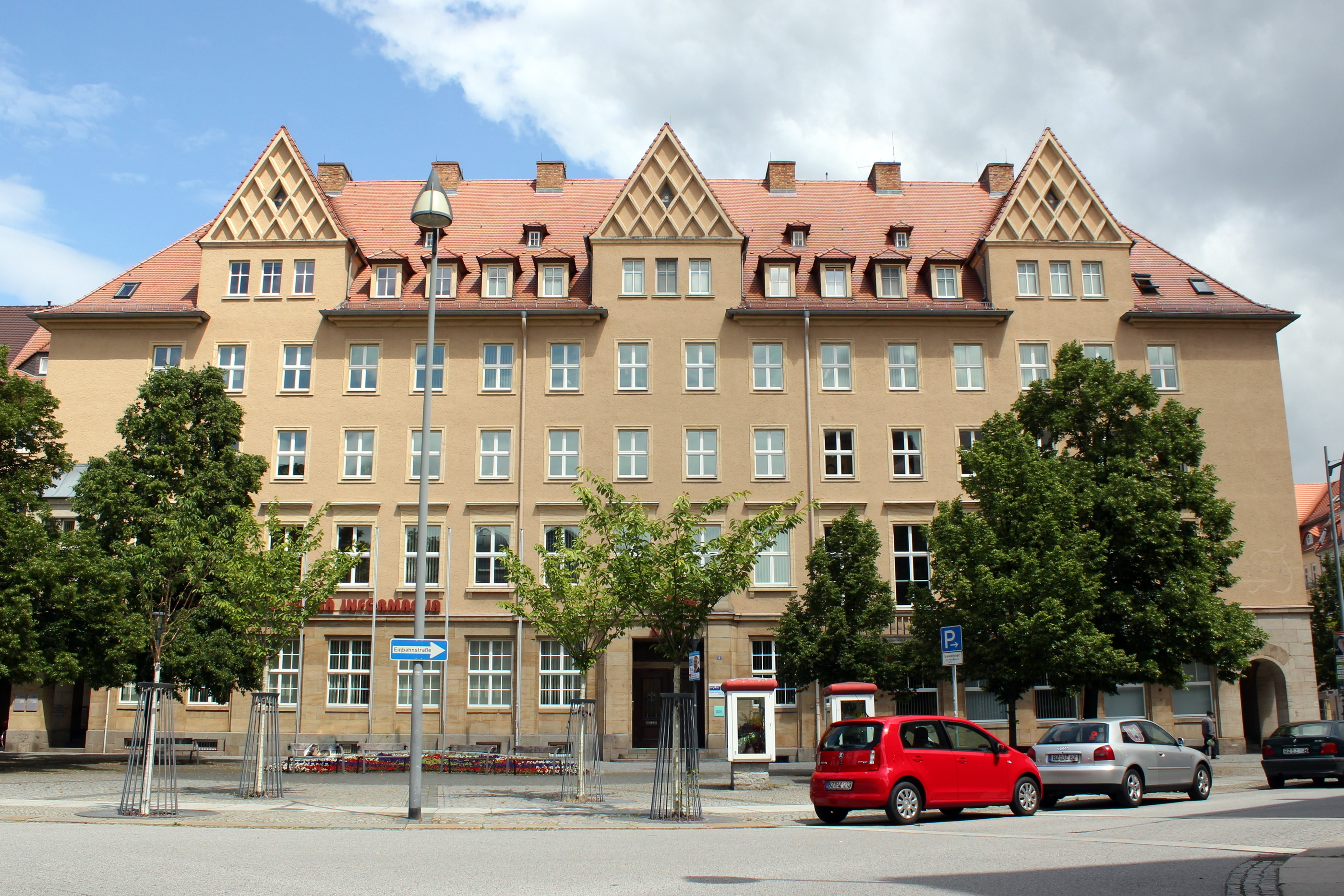 House of the Sorbs (Serbski dom), seat of Domowina and other Sorbian institutions on Postplatz in Bautzen/Budyšin.